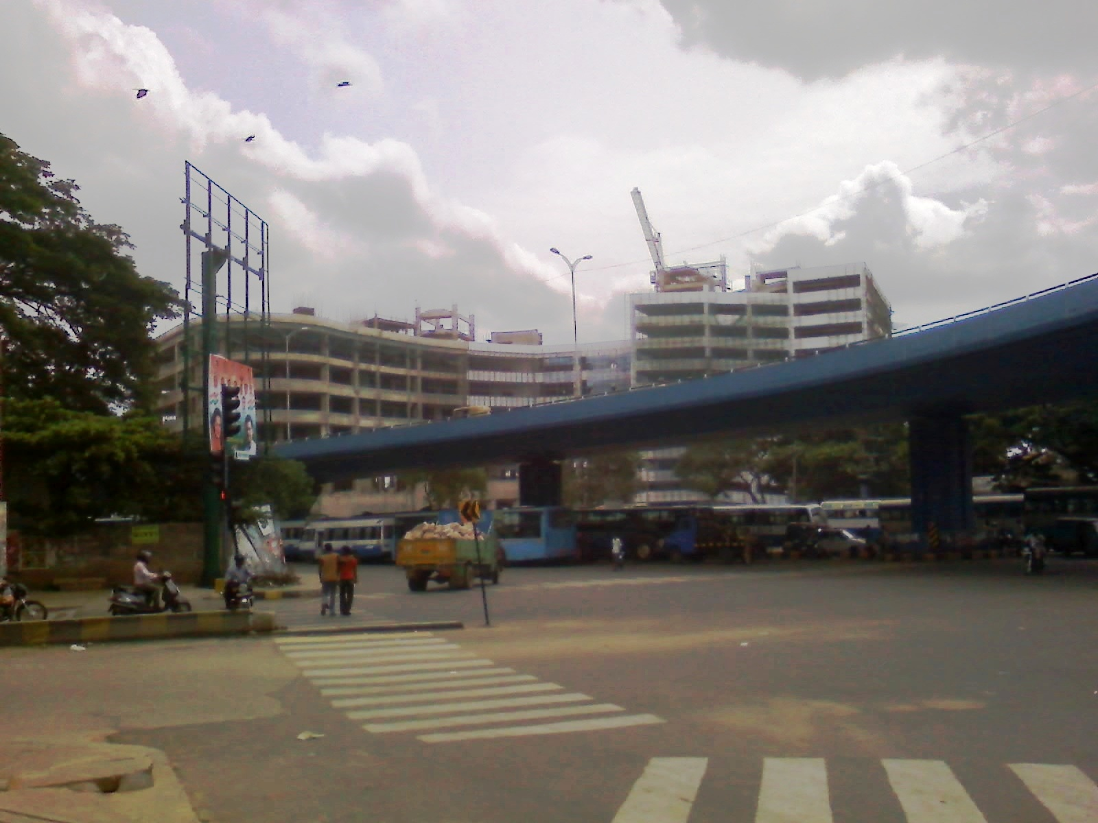 Flyover at Yesvantpur Junction, near TTMC.